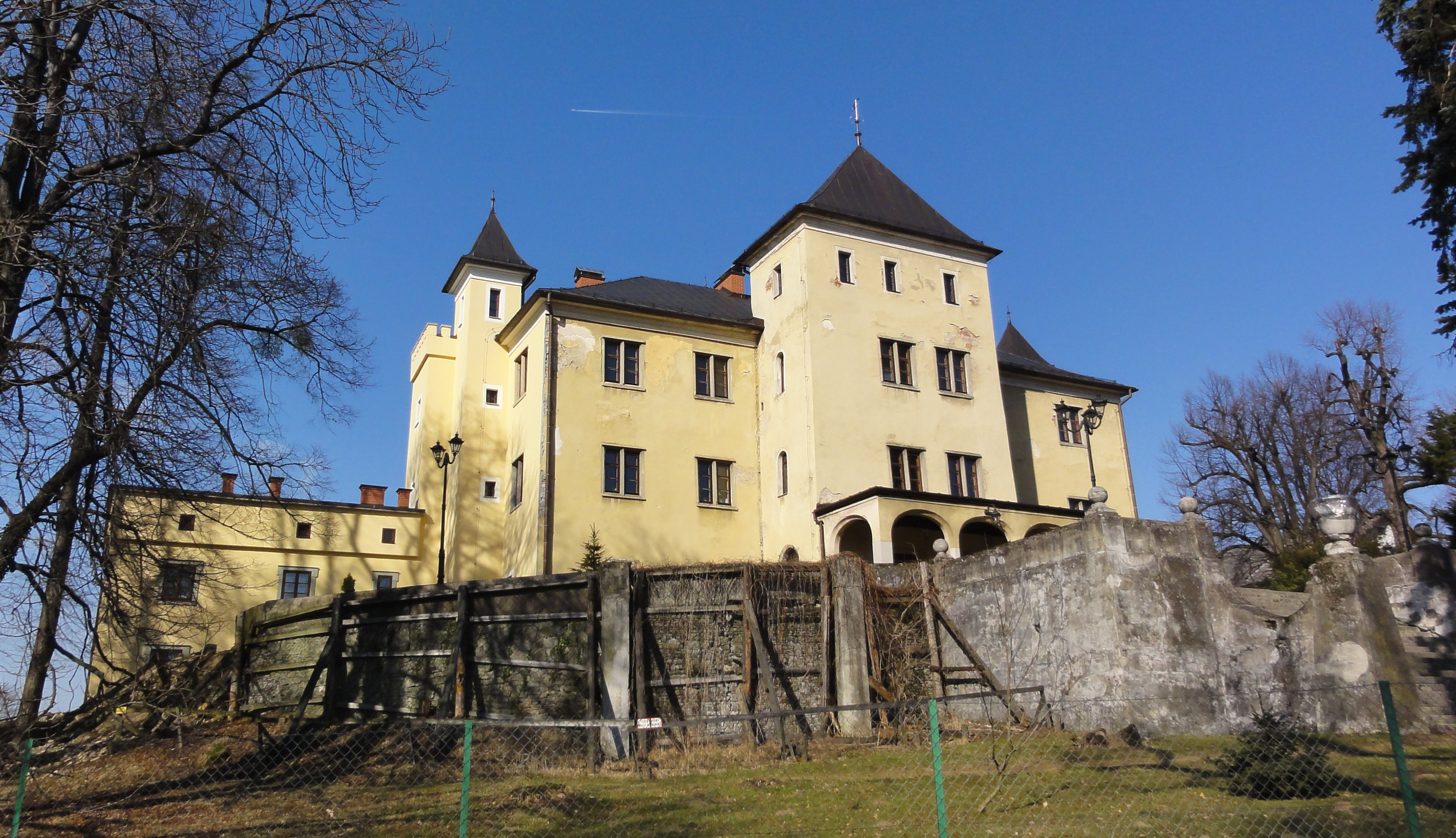 Castle in Grodziec